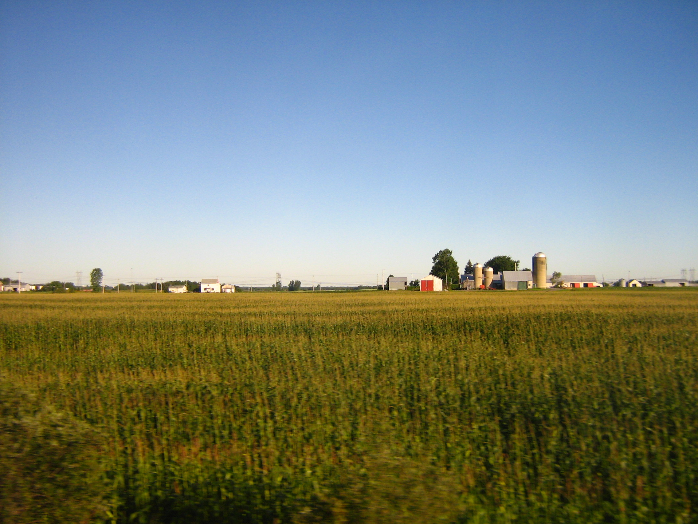 Taken on a train trip through the Centre-du-Quebec region - this was taken somewhere in the vicinity of Notre-Dame-du-Bon-Conseil. August 2006.